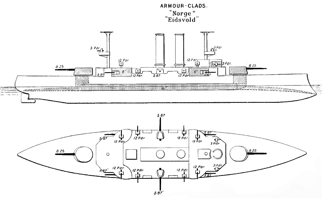 Sketch of the Norwegian coast defence battleship Norge class.